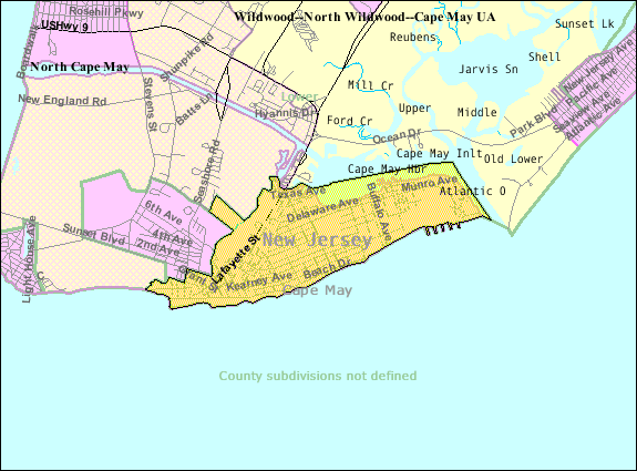 Census Bureau map of Cape May, New Jersey